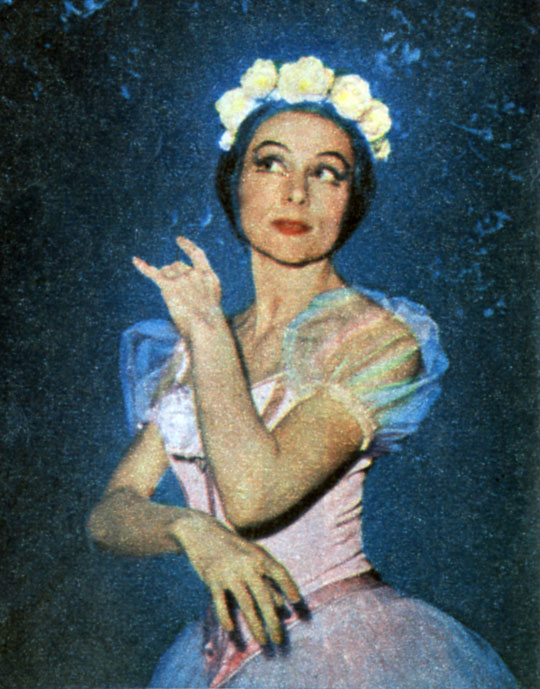 photo from Radiocorriere' (1957)